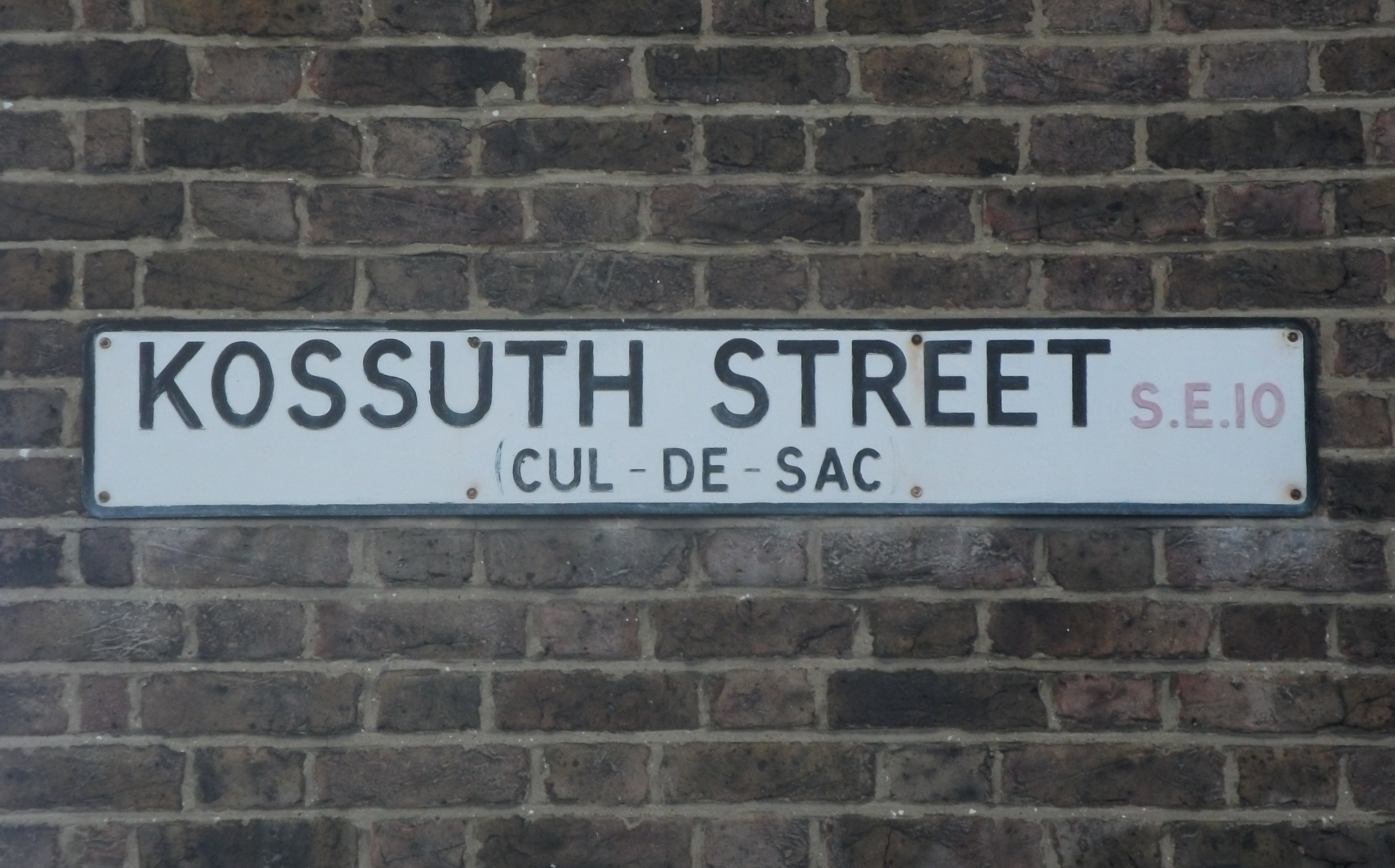 Kossuth Street sign in Greenwich (London, United Kingdom)